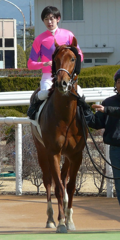 Koshiro-Take